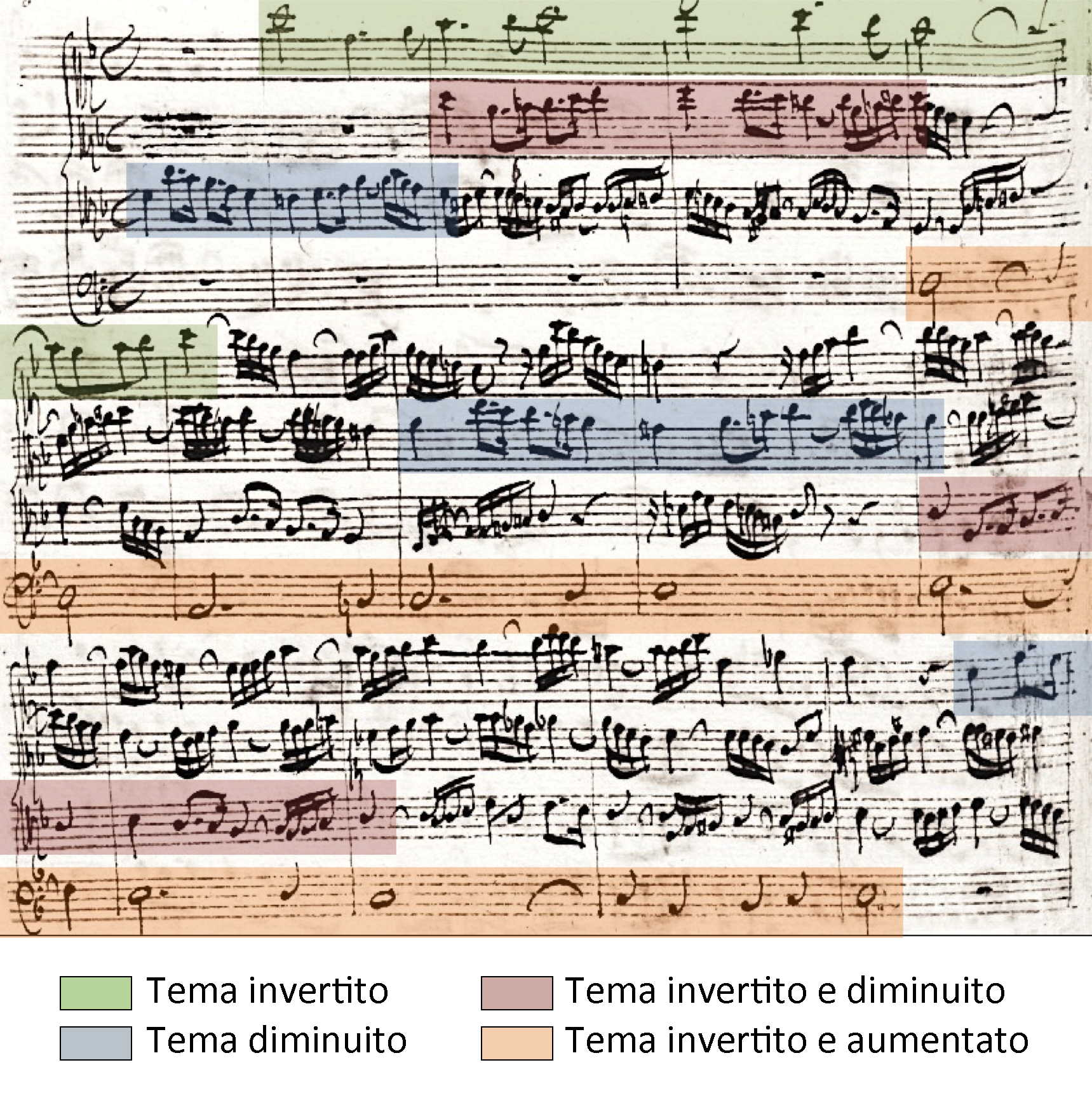 Structure of the beginning of Contrapunctus VII from "The Art of Fugue" by J.S.Bach. Background image of the autograph manuscript.